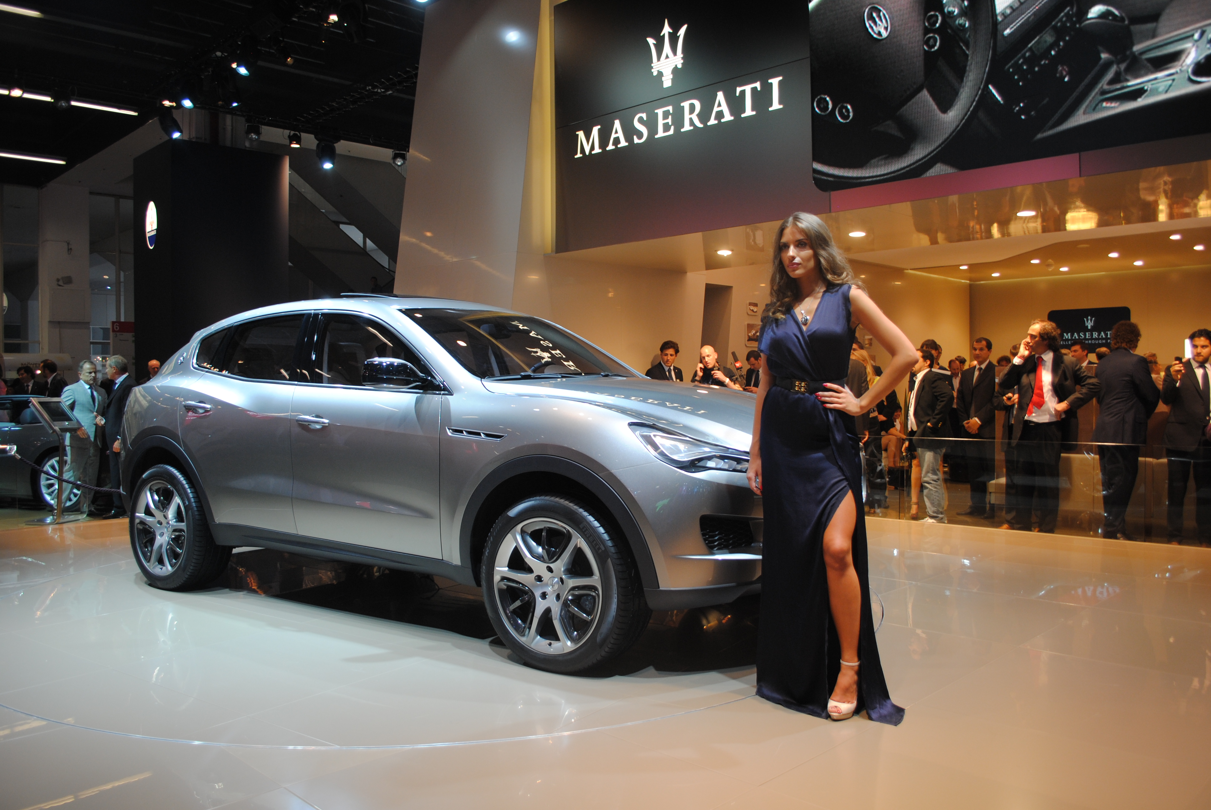 More photos and info